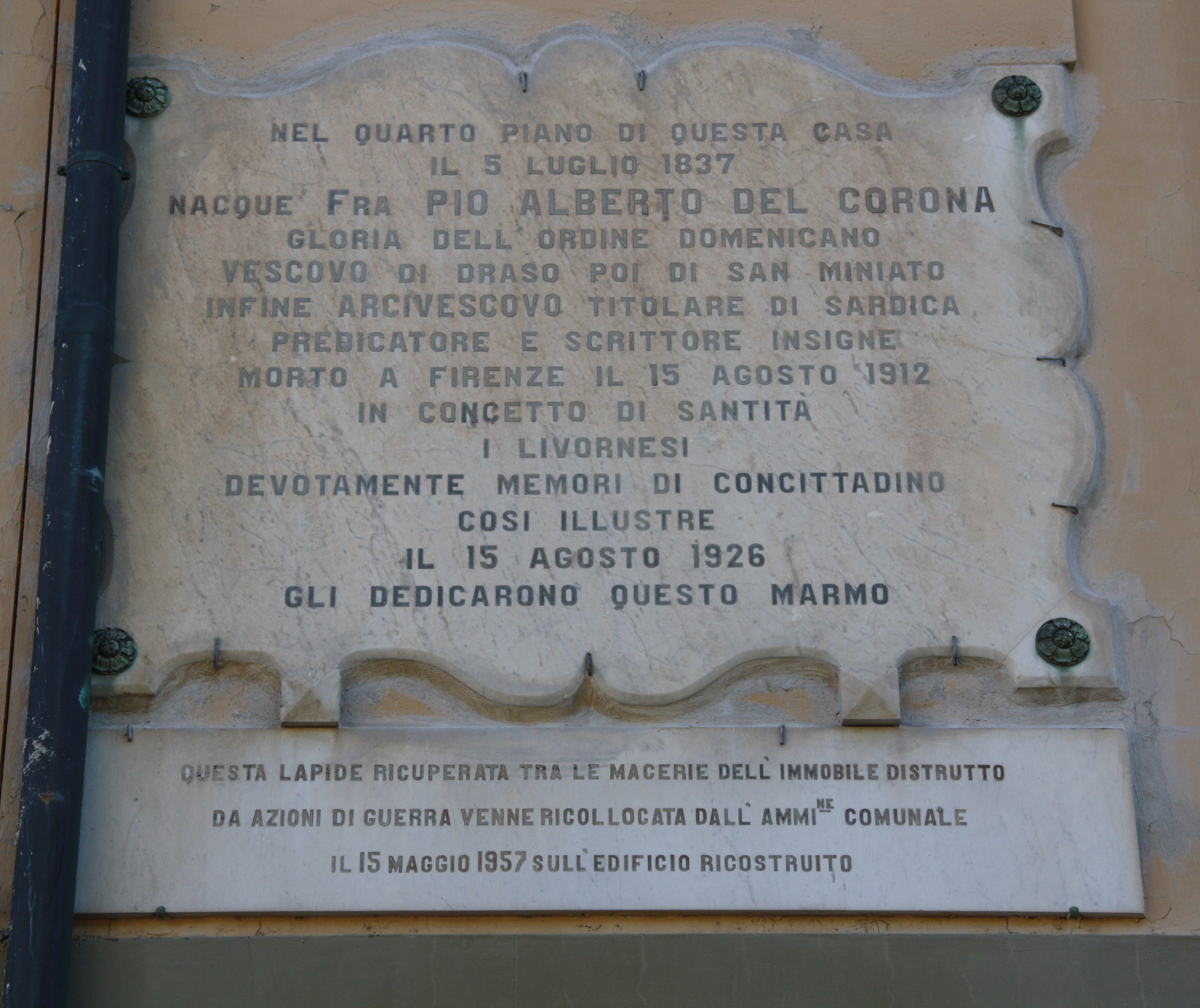 Italy, Livorno, Viale Caprera. The memorial plaque to remember Fra Pio Alberto Del Corona birthplace.